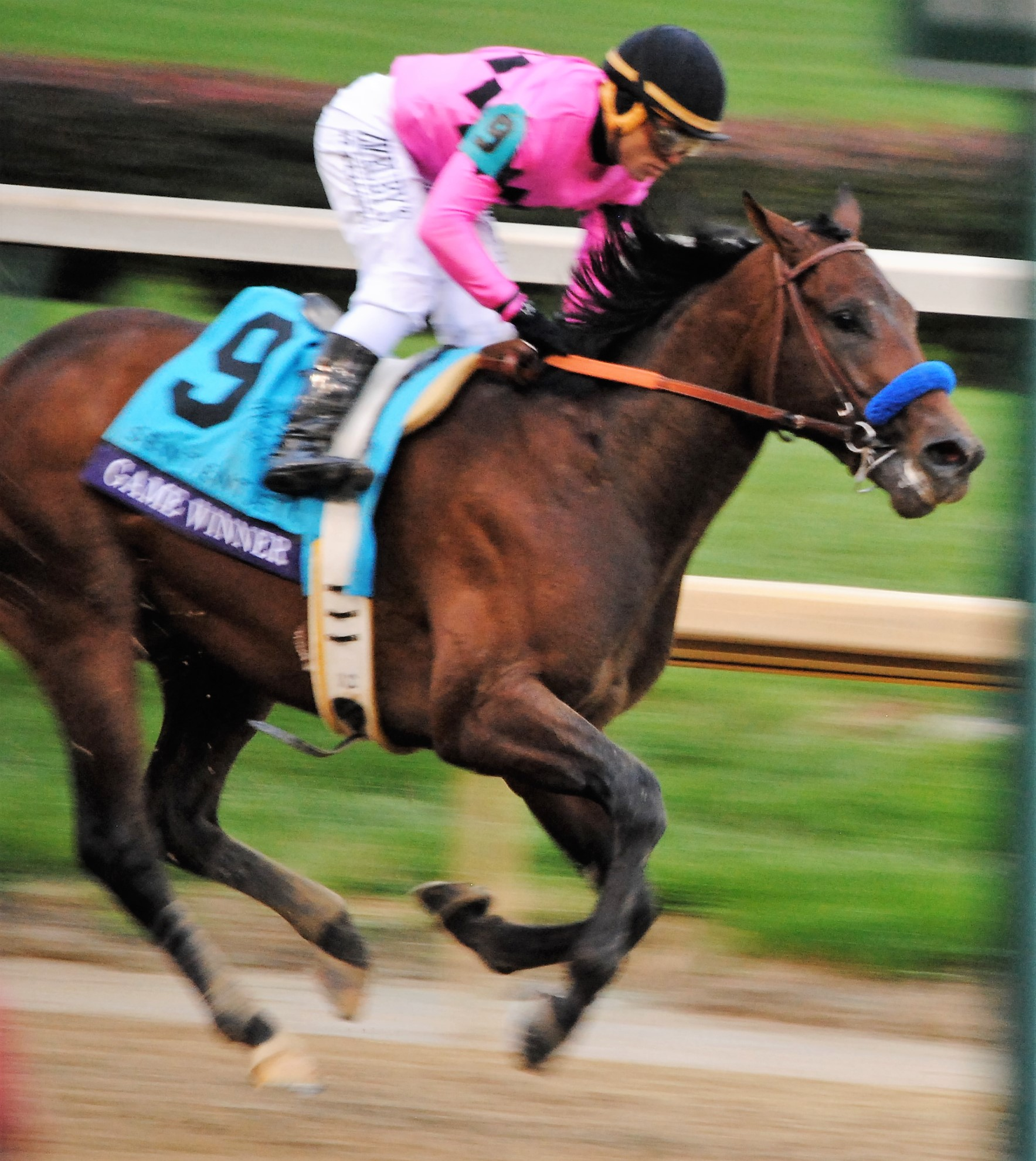 Game Winner and Joel Rosario after winning the 2018 Breeders' Cup Juvenile